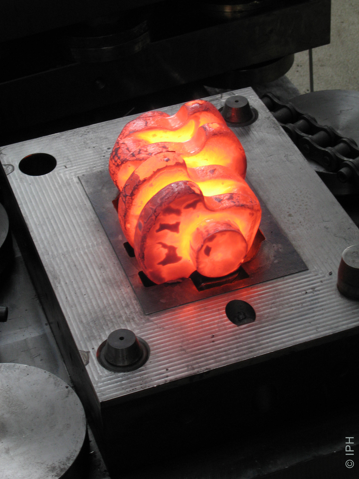 Flashless forged 2-cylinder crankshaft